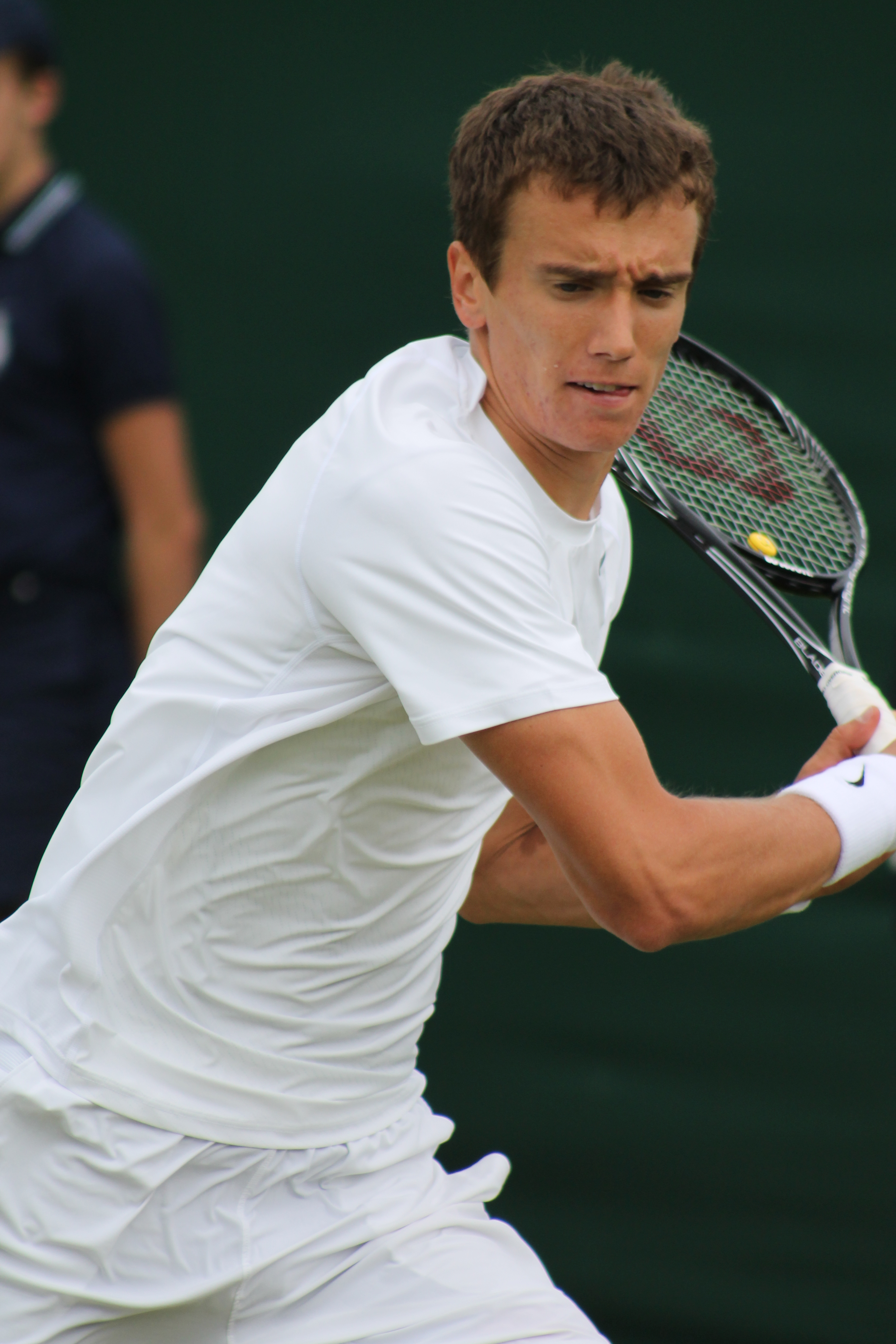 Andrey Kuznetsov (RUS) playing in 1st Round of the Mens Singles at Wimbledon 2013, Court 9, on 24 June 2013; opponent was Albert Montanes (ESP)